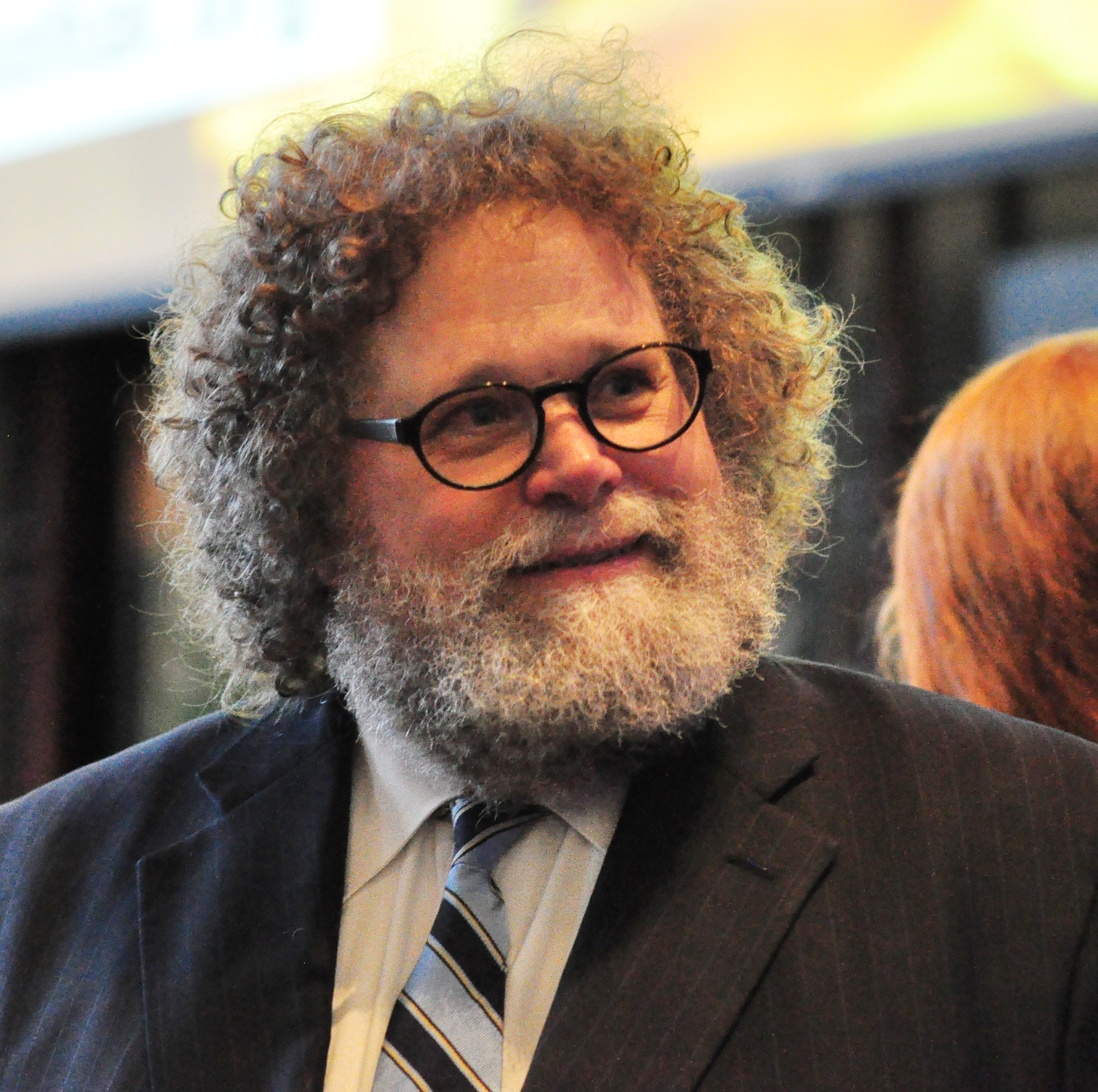 Knute Berger, before introducing David B. Williams as presenter of the 2015 Denny Lecture at the Museum of History and Industry, Seattle, Washington on Tuesday, March 24, 2015.